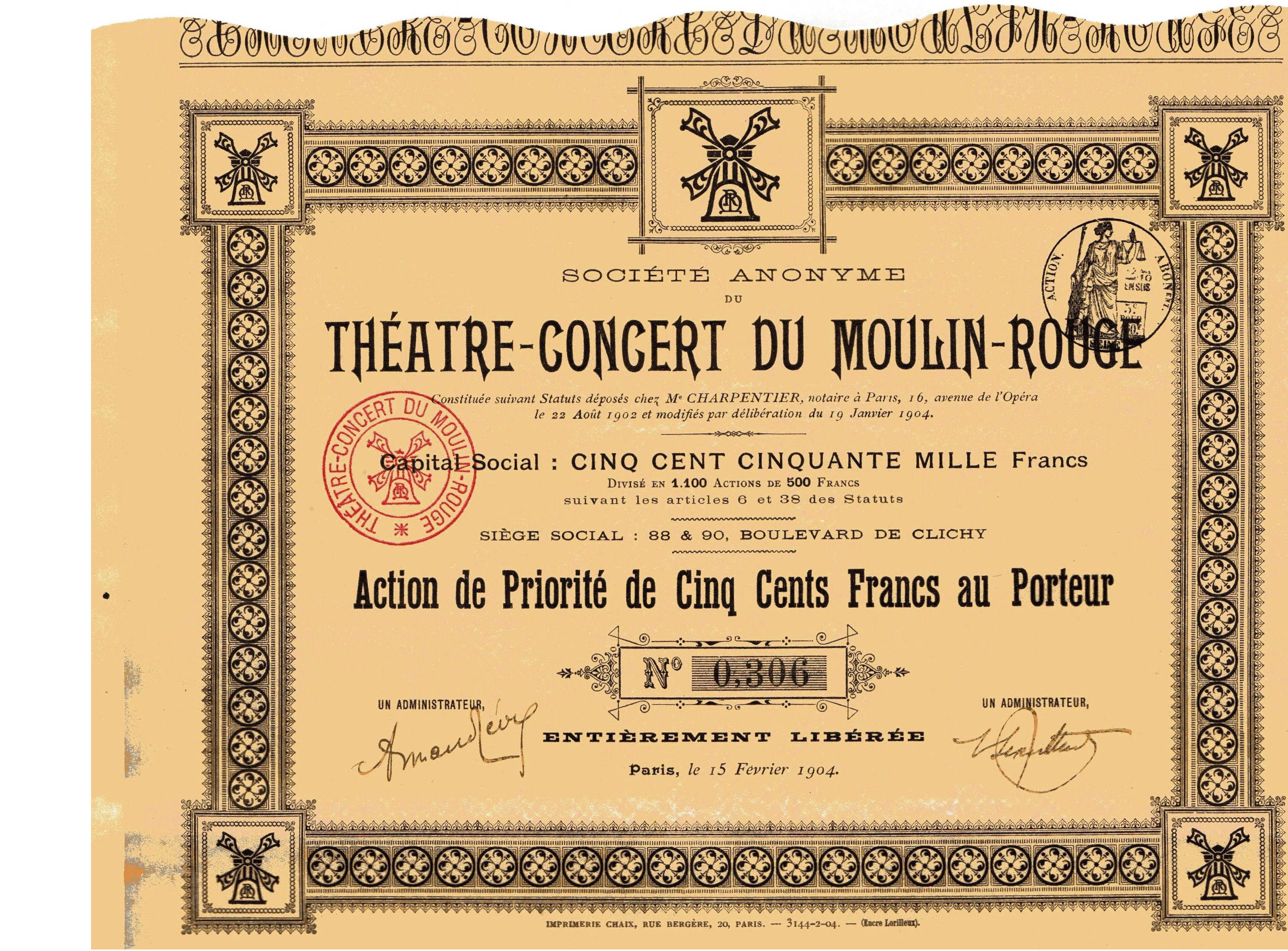 Priority Share Certificate with a par value of 500FF (French Francs) for the S.A. du Théatre-Concert du Moulin-Rouge, issued 15 February 1904